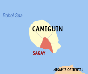 Map of Camiguin showing the location of Sagay